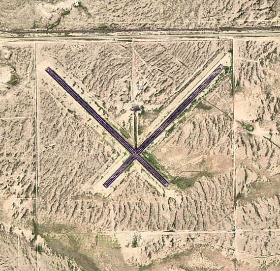 USGS digital orthophoto of Terrell County Airport in Texas